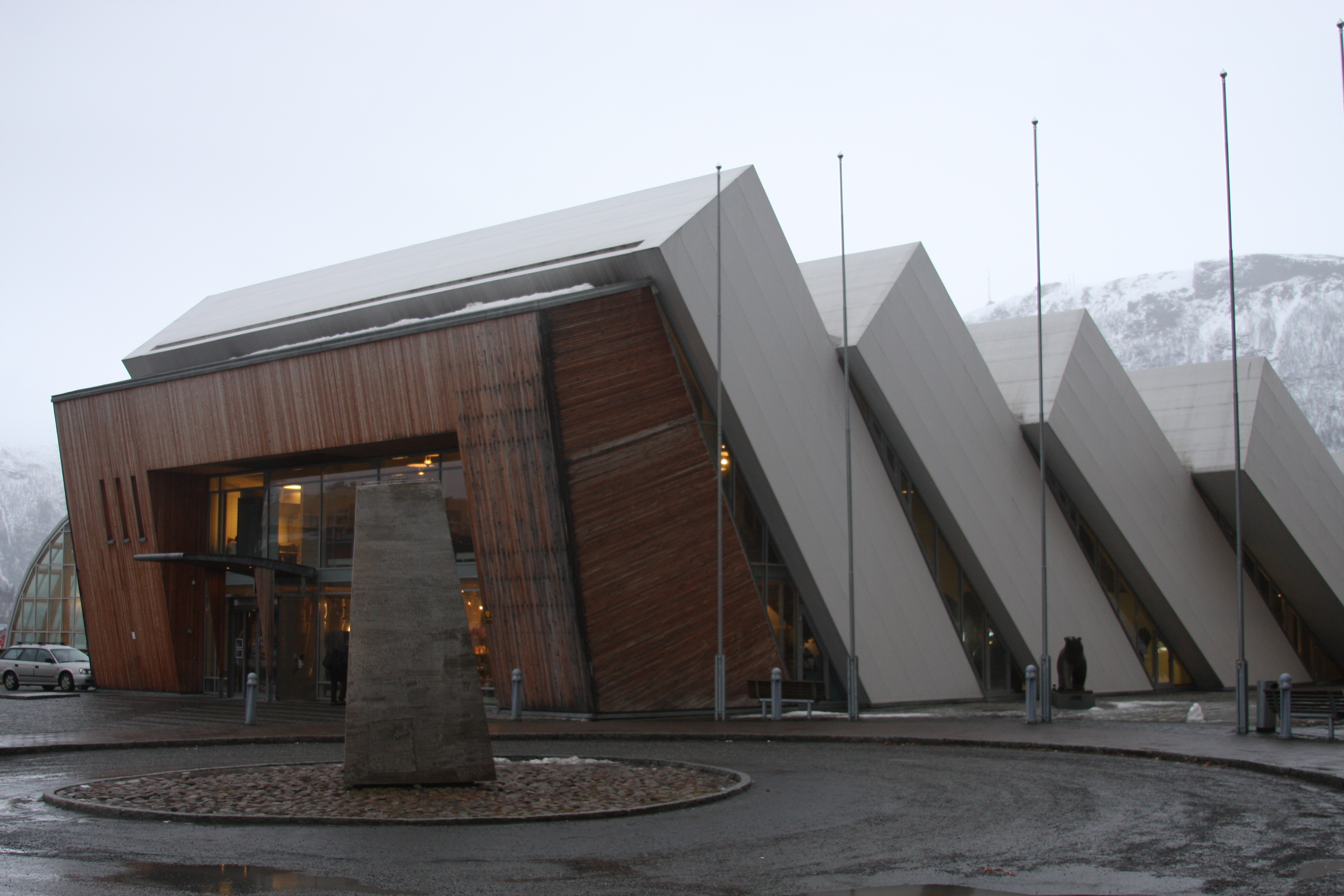 Polaria arctic museum, Tromsö, Norway